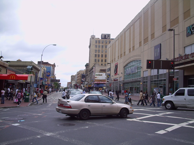 Jamaica Avenue intersecting with Parsons Boulevard in Jamaica, Queens NY. Picture taken in Summer 2006.